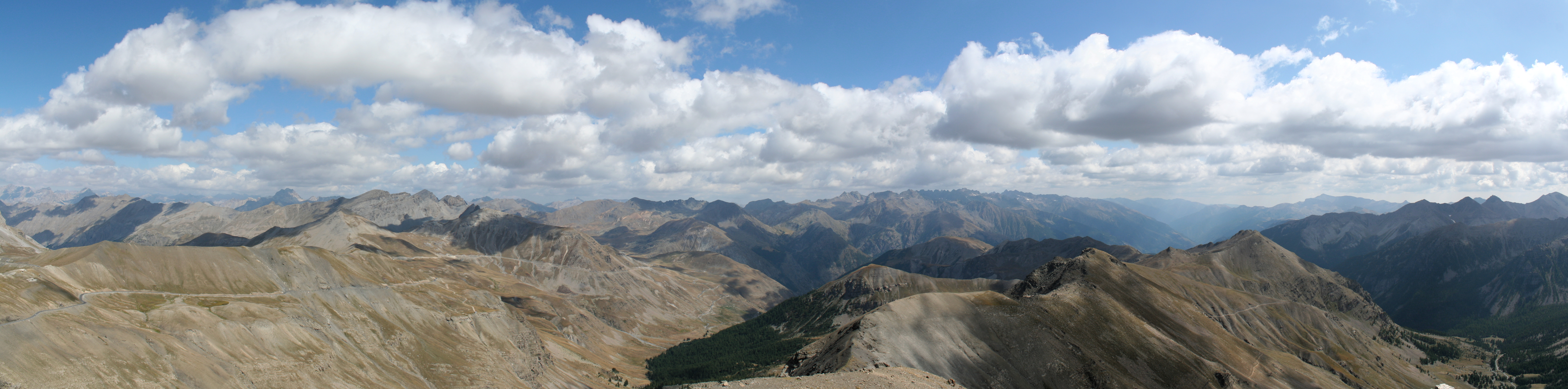 View from Cime de la Bonnette southwards into the Tinée valley